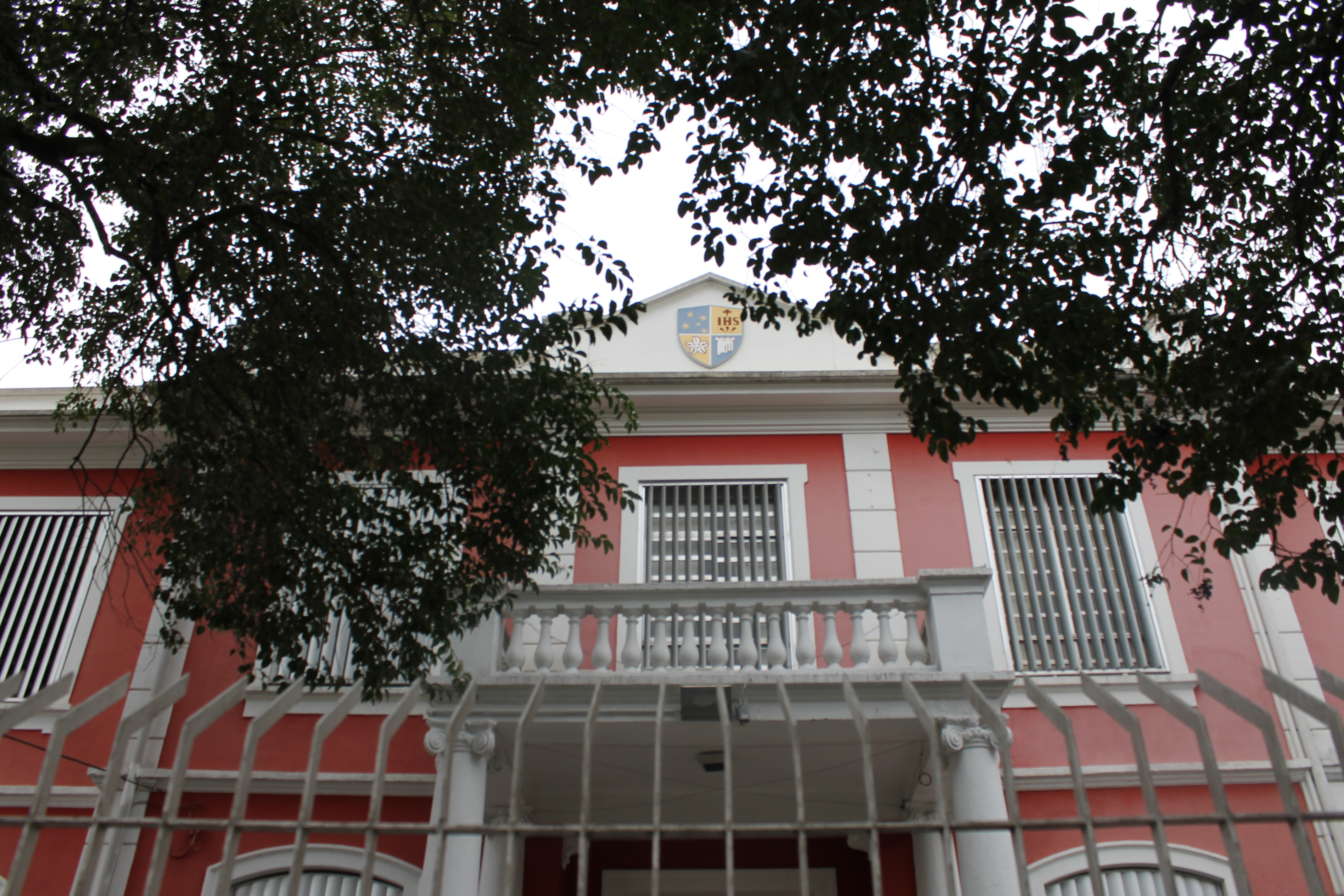 Imagem da parte superior da entrada do Colégio São Francisco Xavier em São Paulo (SP), Brasil